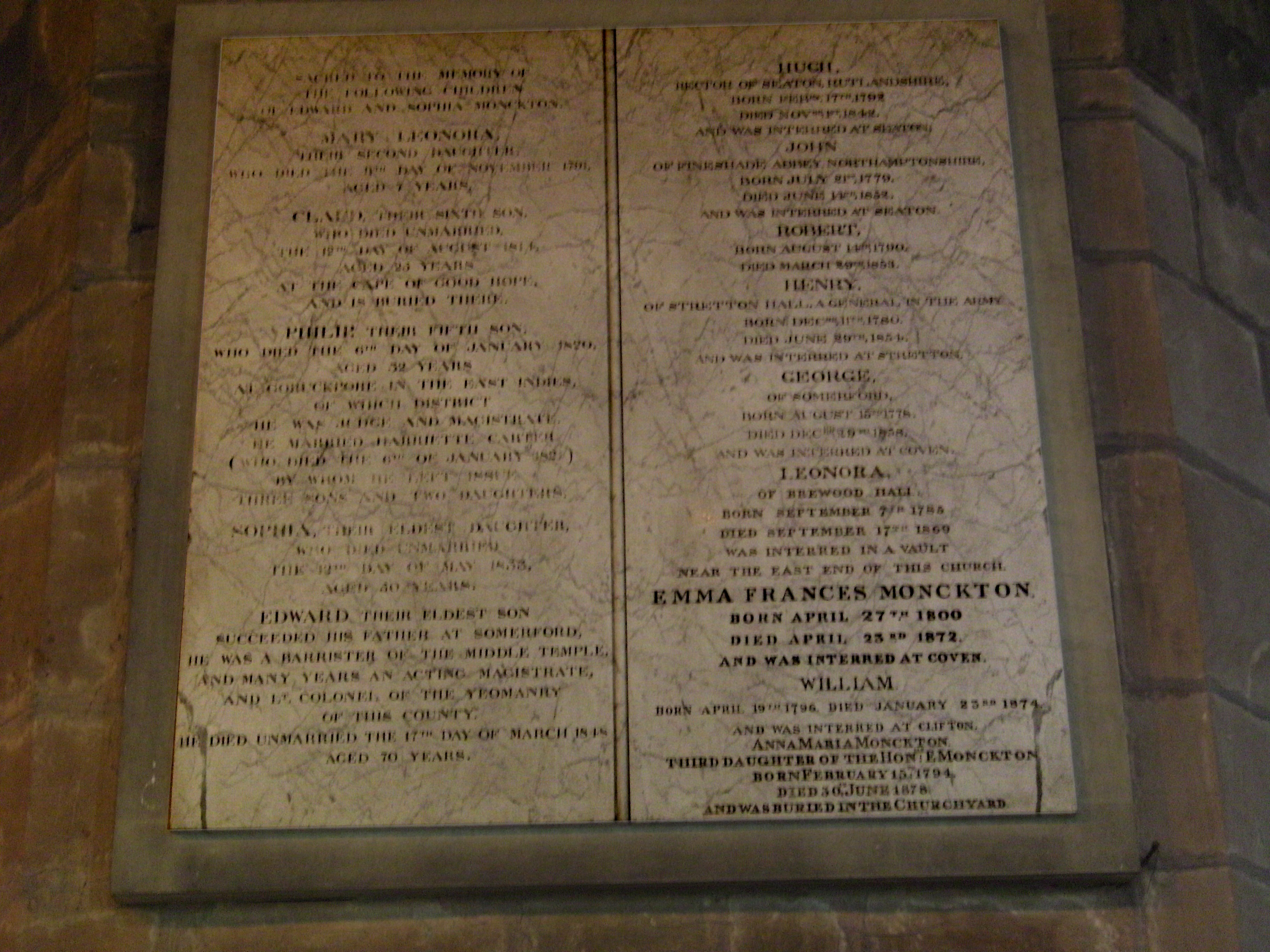 Monument to the children of Edward Monckton and Sophia Pigot, Brewood parish church.